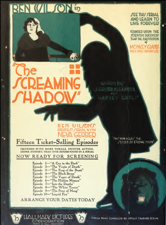 Ben Wilson in the American film serial The Screaming Shadow (1920) directed by Ben F. Wilson and Duke Worne, in Film Daily 1920